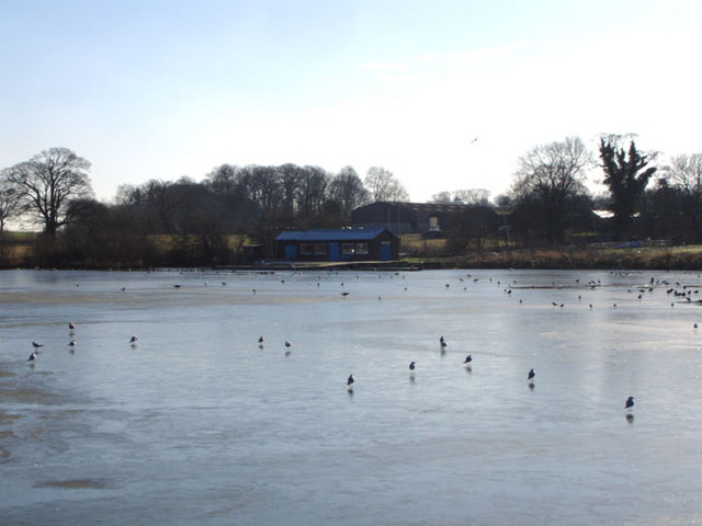 Gresford Flash The Gresford Sailing Club on the side of the Flash in mid winter with seagulls standing on the frozen water